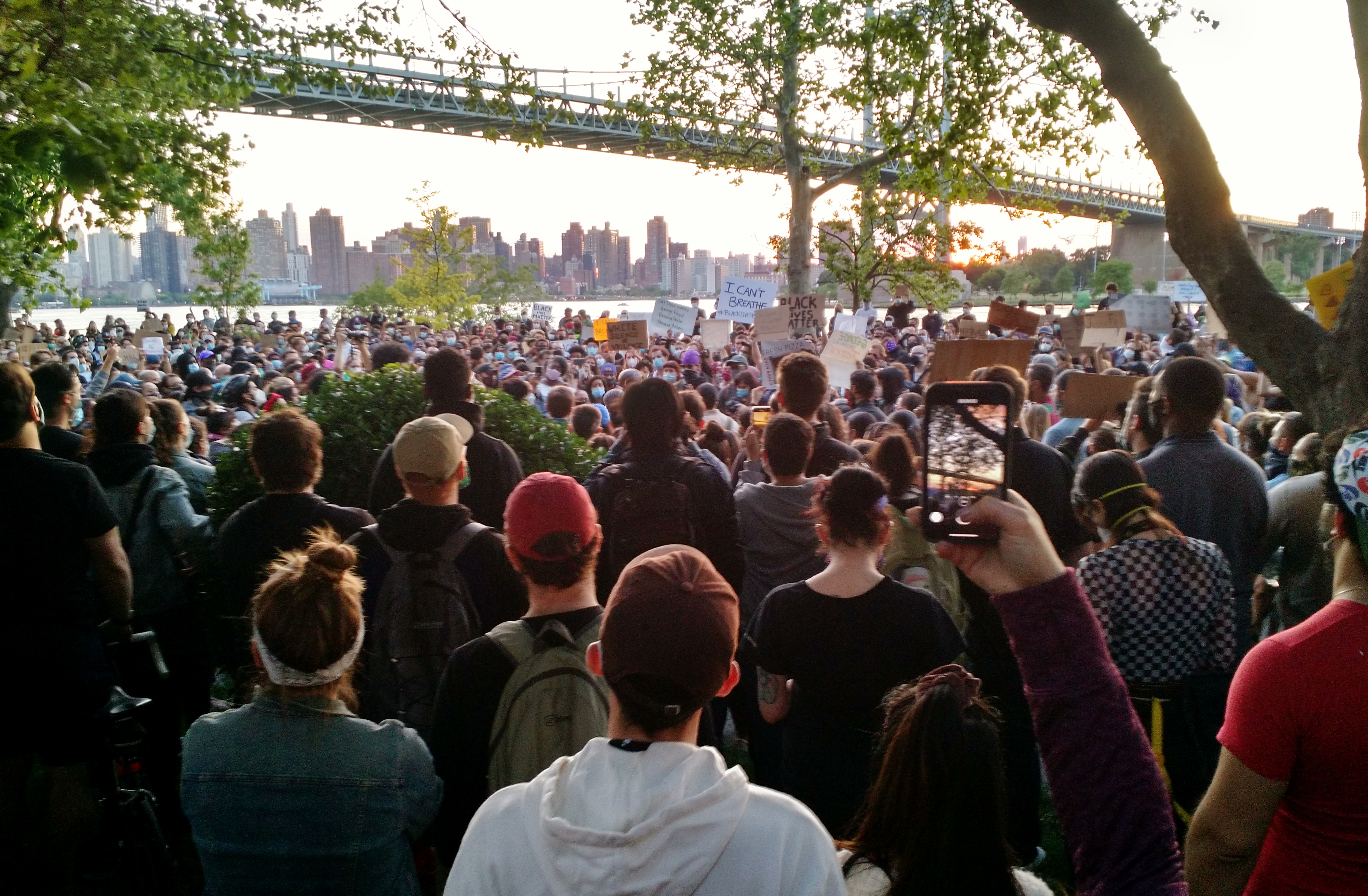 a large crowd of mostly young adults gathered in Astoria Park among scattered trees and bushes, displaying cardboard signs reading “I CAN’T BREATHE”, “BLACK LIVES MATTER”, and “Say Their Names: ⁃ George Floyd ⁃ Breonna Taylor ⁃ Ahmaud Arbery”, among others; in the background is visible underneath the Triborough Bridge and across the East River, to the left the skyline of Manhattan’s Upper East Side, to the right Wards Island with the setting sun; in the foreground, someone is holding up their smartphone, taking a video of the scene